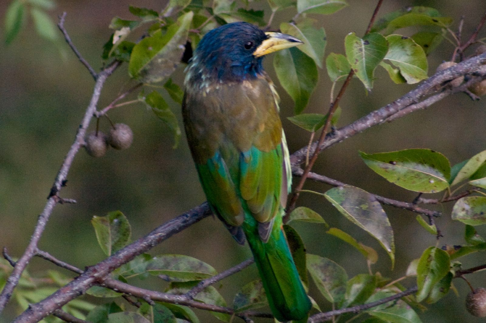 A Great Barbet in Chakrata, Uttarakhand, India.